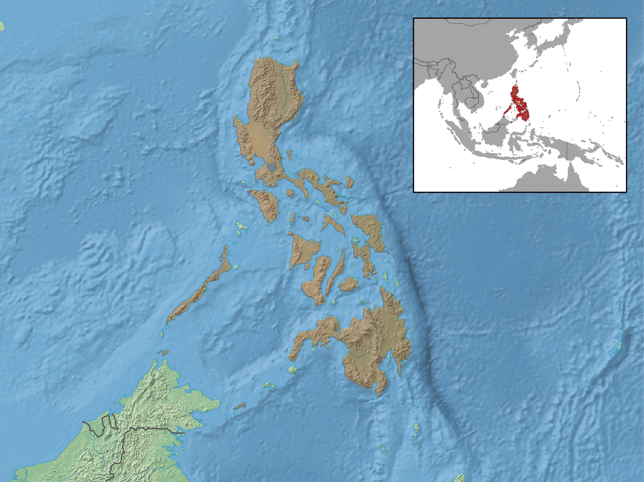 geographic distribution of Myotis macrotarsus